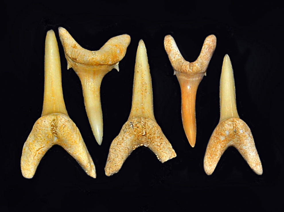 Fossil teeth of Striatolamia whitei from Khouribga (Morocco)